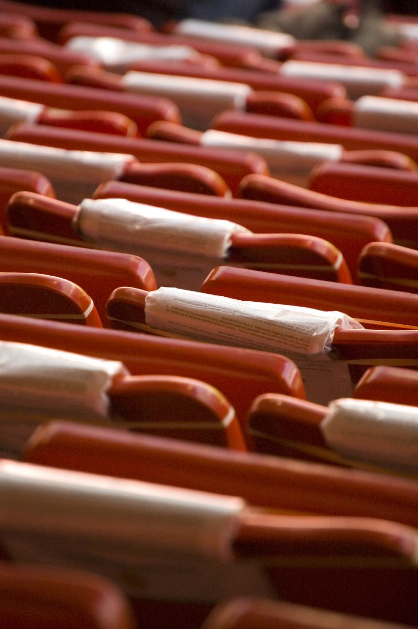 The scarves given by Manchester United to the supporters as part of the memorial ceremonies of the Munich Air Tragedy